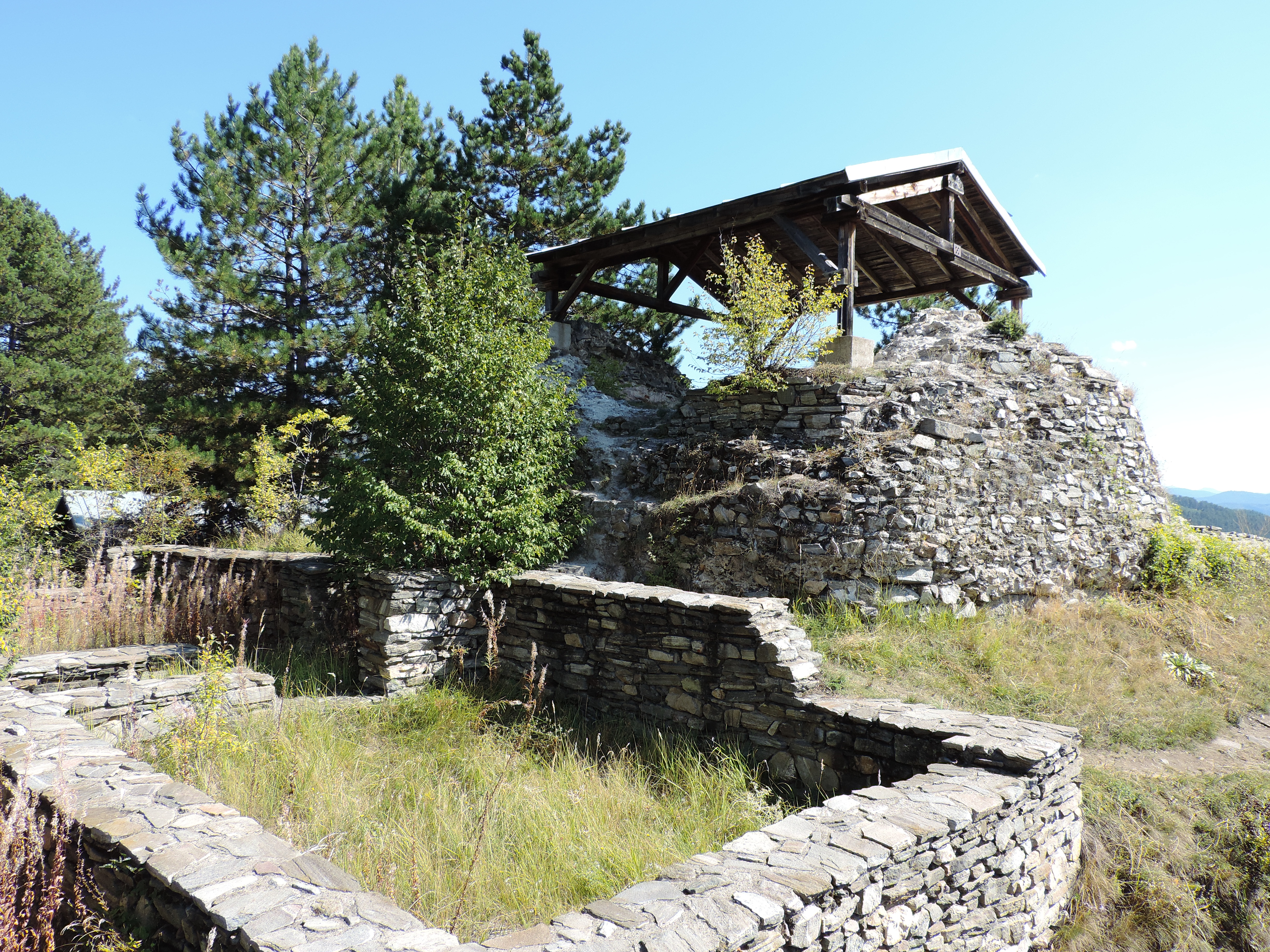 Tsepina Fortress, Bulgaria.